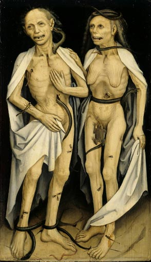 Anonymous oil painting, created around 1470 in Swabia (German Empire). Known as The dead lovers, the painting belongs to the collection of the Musée de l'Œuvre Notre-Dame in Strasbourg. For years, it has been wrongly attributed to Matthias Grünewald.